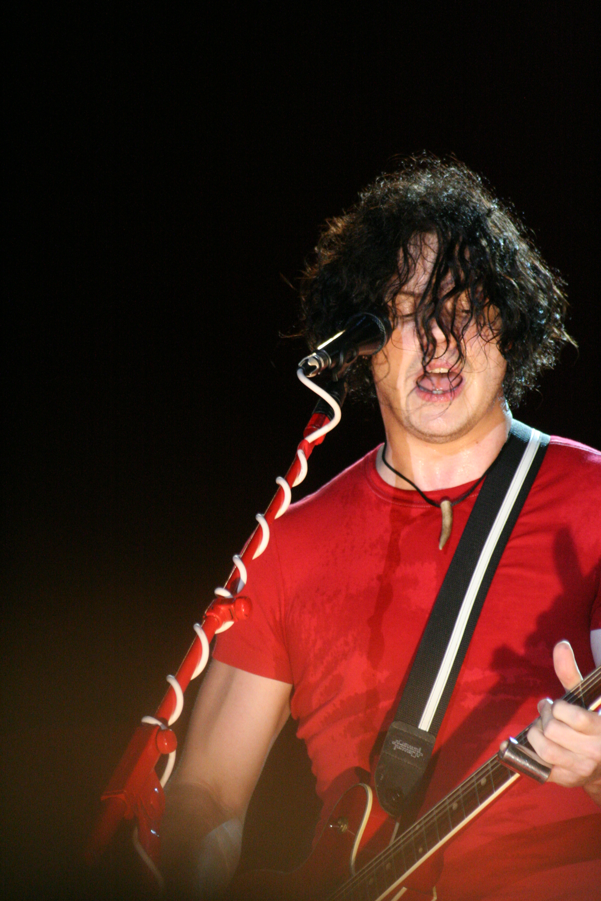 Jack White playing at the 2007 Bluesfest in Ottawa, Canada.